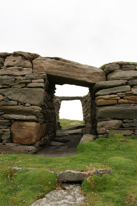 Ness of Burgi, Mainland (Shetland), Scotland - entrance from the west into the passage